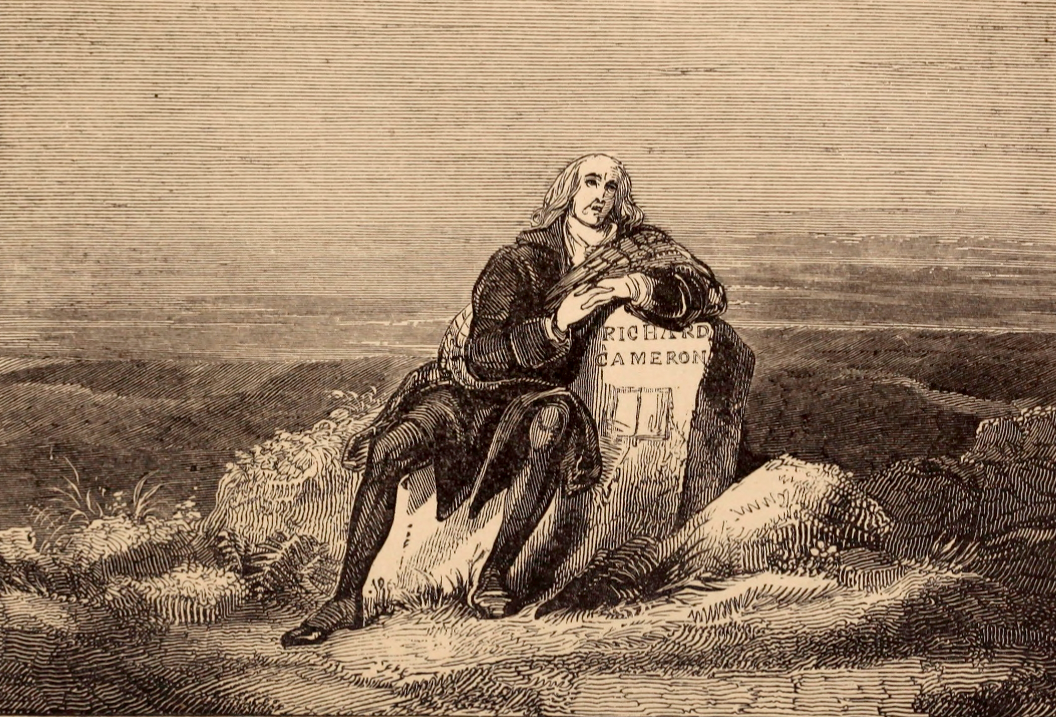 Peden at Cameron's grave from Anderson's Bass Rock